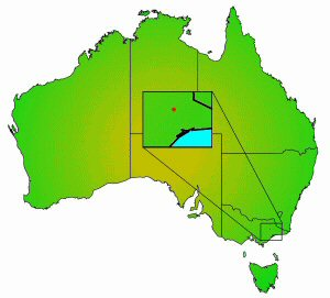 A map of Australian showing the distribution of Galaxias mungadhan